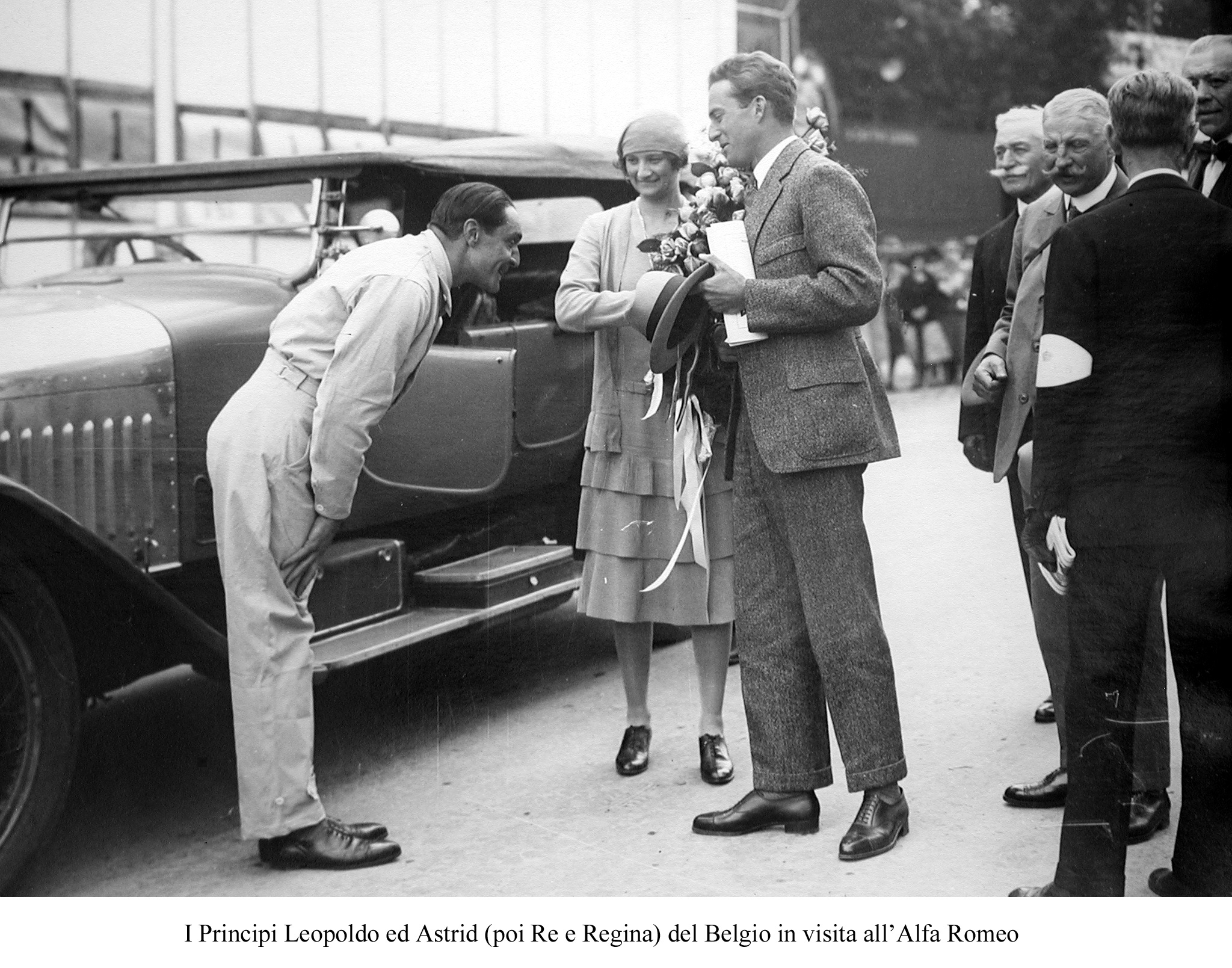 Prince Leopold and Princess Astrid of Belgium visiting Alfa Romeo in Milan, Italy.